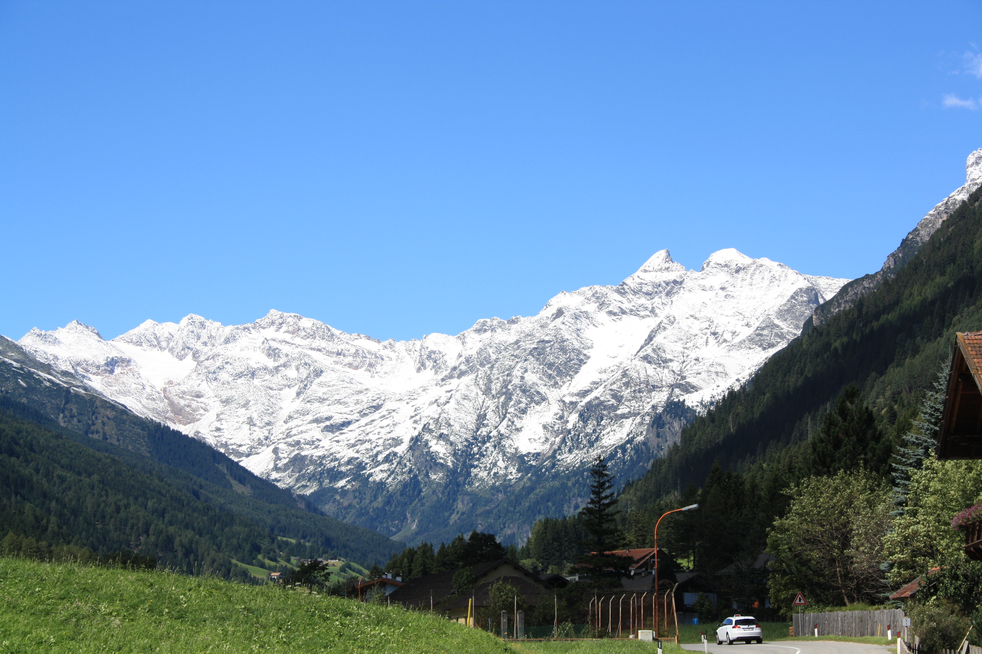 Italy, South Tyrol. Pflerschtal from Gossensass.